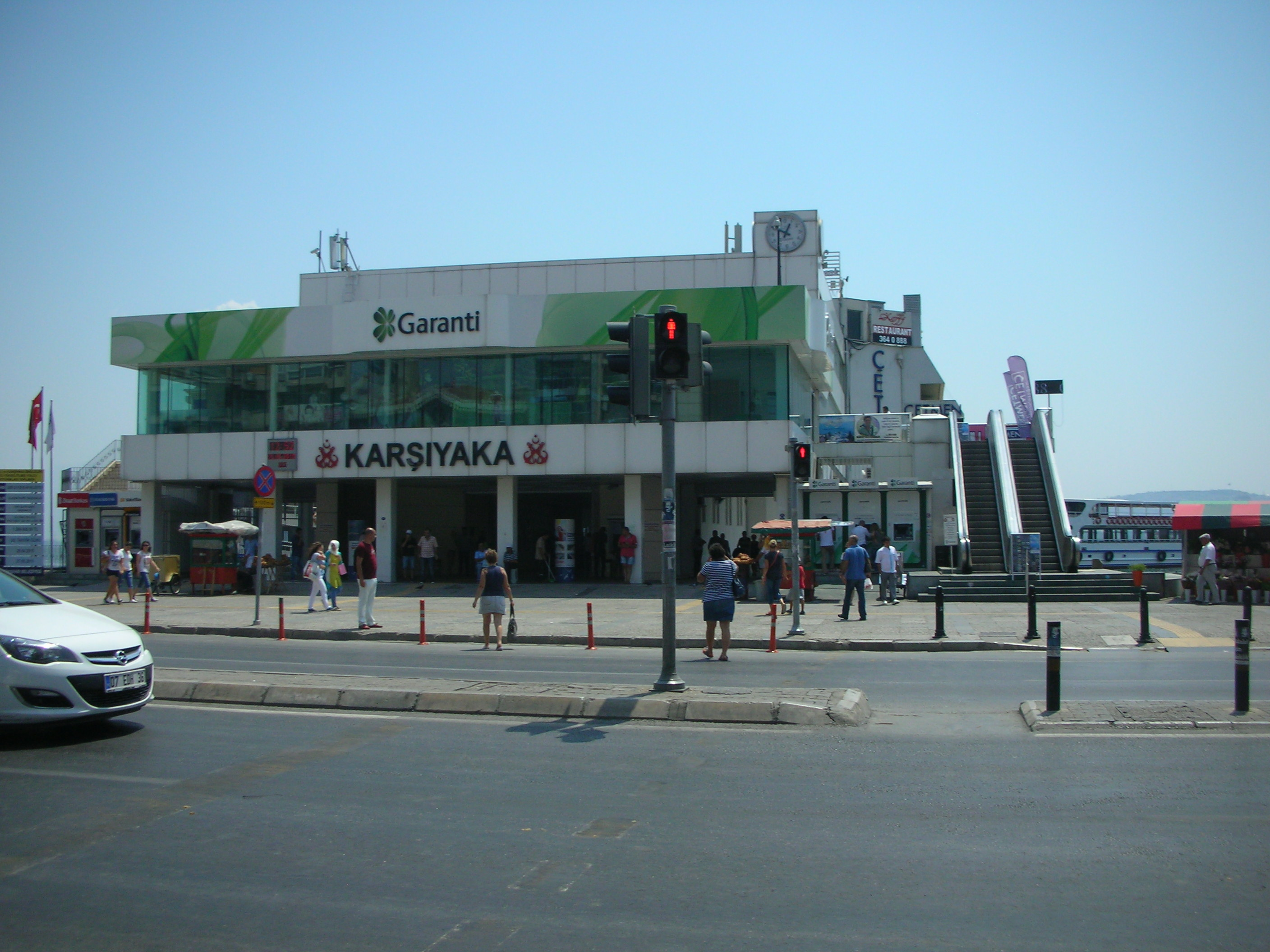 A view of Karşıyaka Pier in 2015